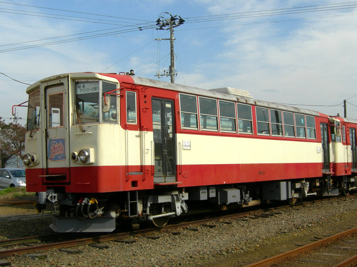 Kurihara Den-en railway KD11 (diesel car,from Nagoya railway)